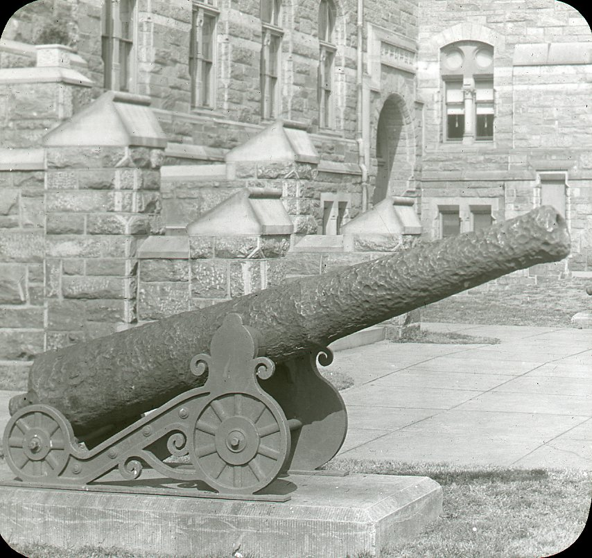 One of the canons outside Healy Hall on the campus of Georgetown University